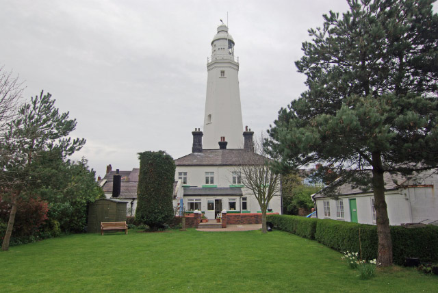 Withernsea Lighthouse, Withernsea, East Riding of Yorkshire, England.